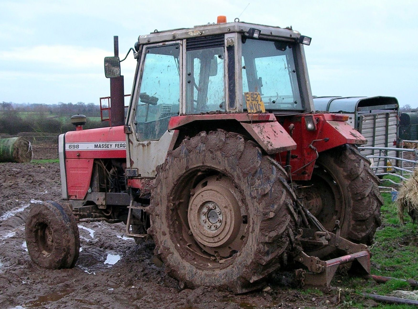 A Massey Fergusion 698 tractor in a muddy field